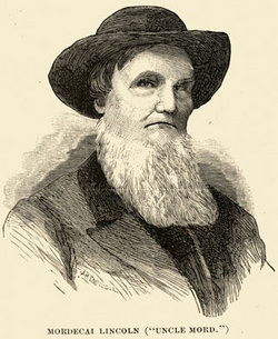 John Hanks, cousin of Nancy Hanks (cropped from original)